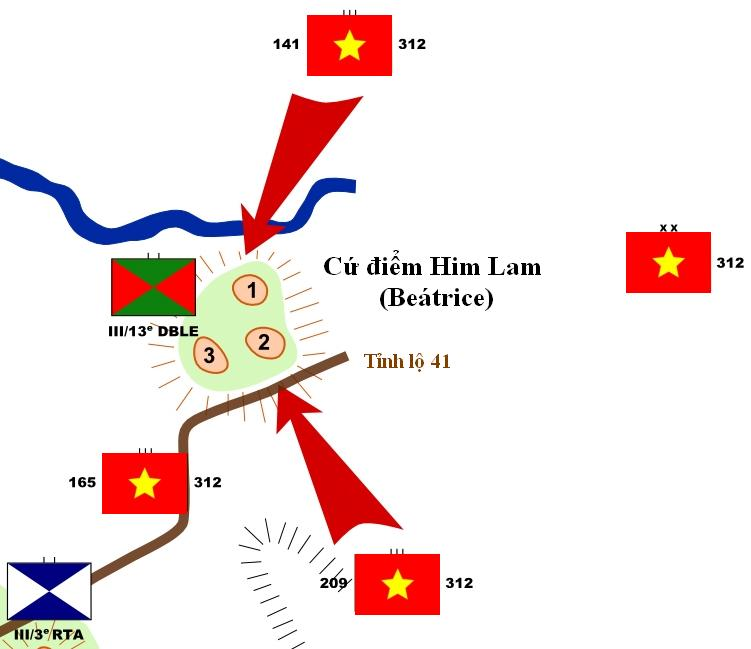 Map of Battle of Him Lam (Beátrice), a part of Battle of Dien Bien Phu.